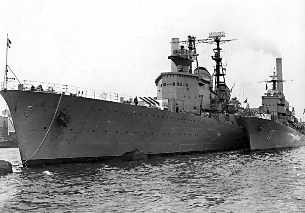 The Swedish cruiser HMS Göta Lejon and the destroyer HMS Uppland.